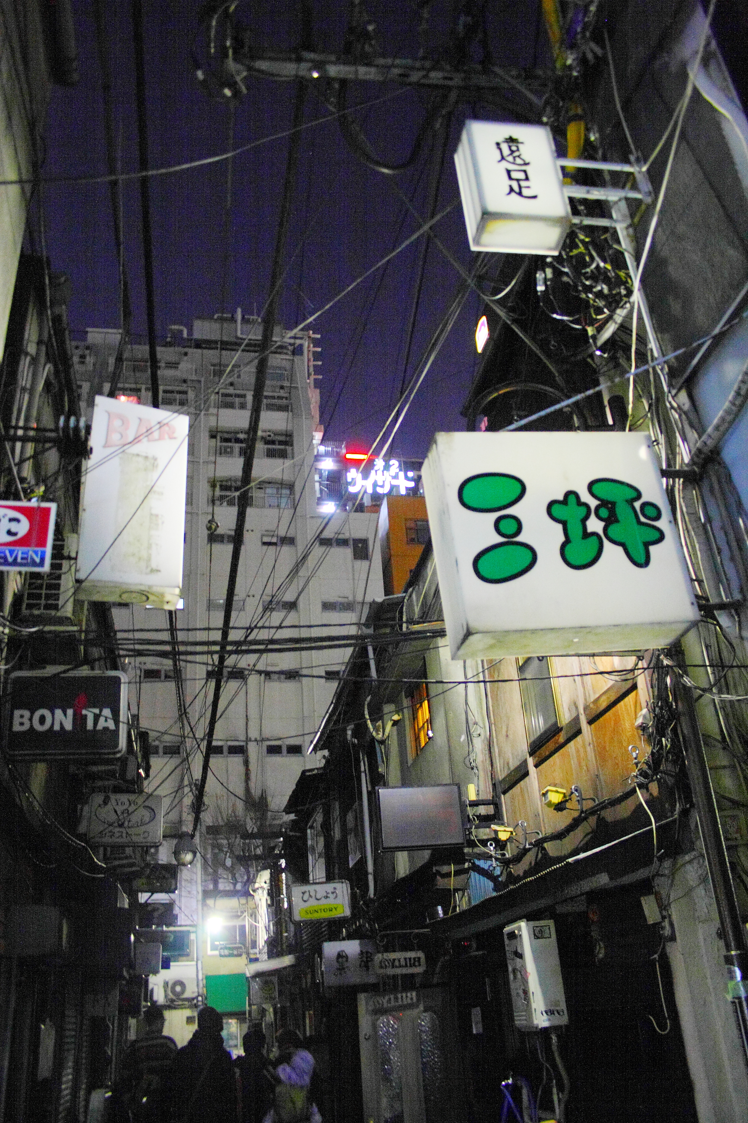 Akarui Hanazono Ichiban Street is located in Shinjuku Ward, Tōkyō Metropolis.